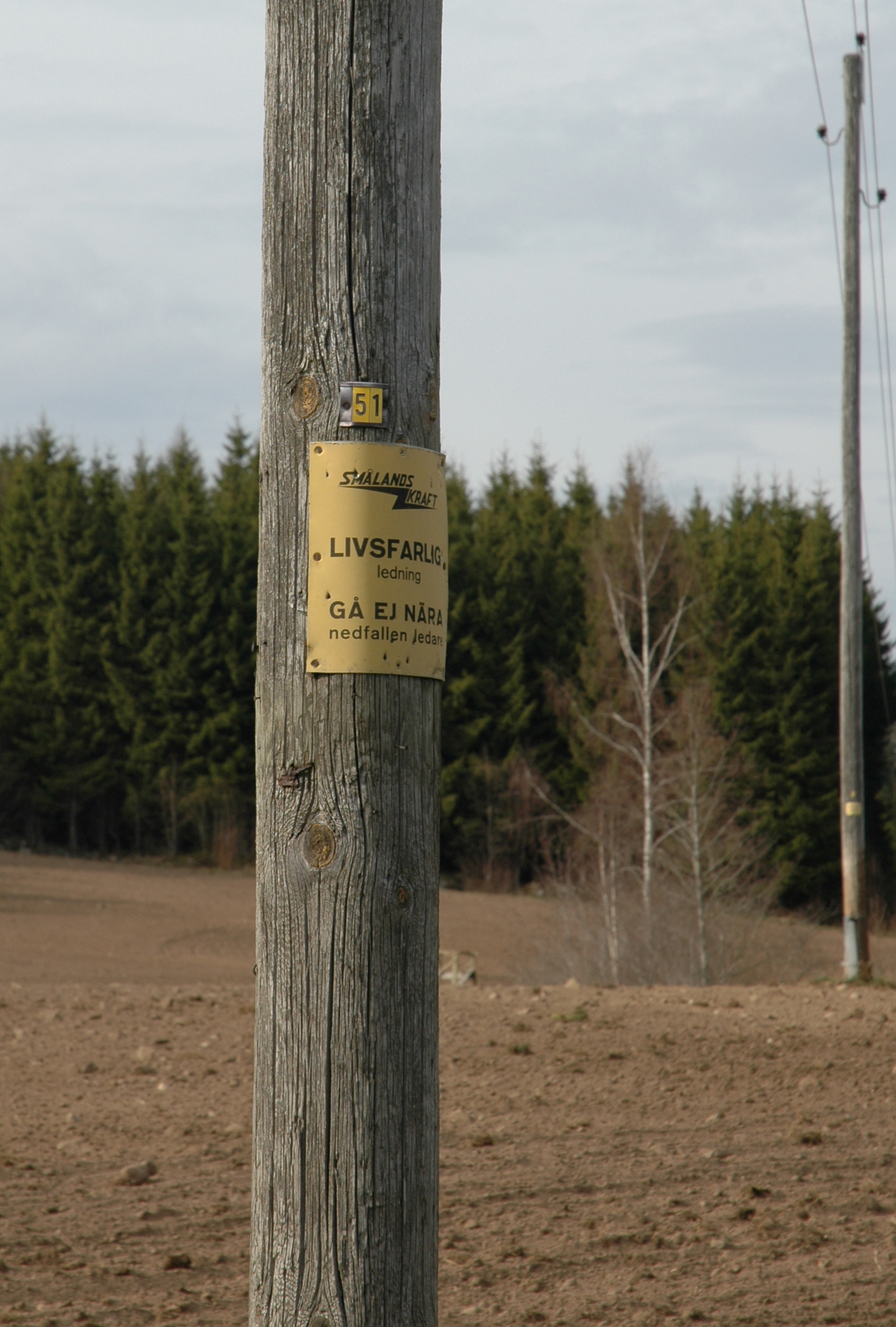 Electic cable in Hakarp